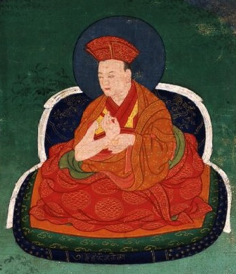 Dorje Rinchen, 14th Century Drukpa Kagyu Monk